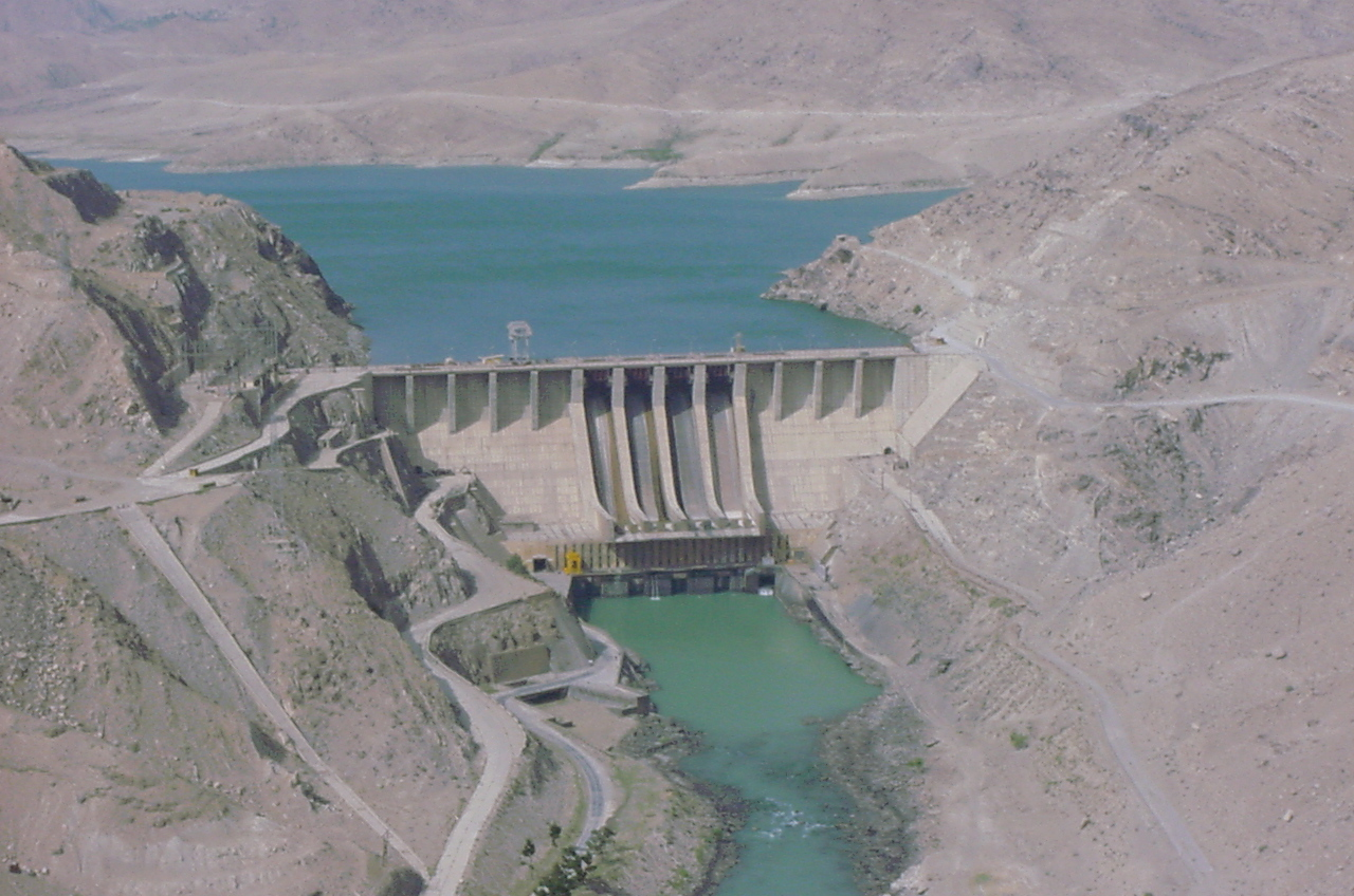 Naghlu Dam, located in Surobi District of Kabul Province in eastern Afghanistan.